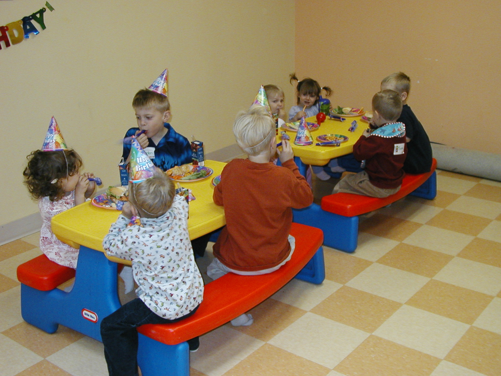 At Evan's second birthday party (Gymboree)